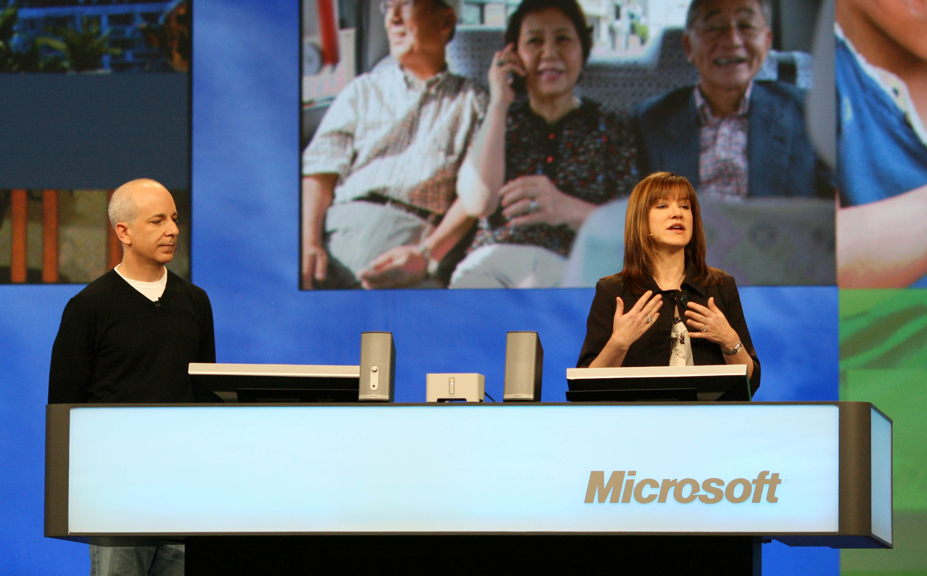 Steven Sinofsky (Senior VP, Windows and Windows Live engineering group) and Julie Larson-Green (VP, Windows Experience) during the keynote, day 2 of PDC 2008